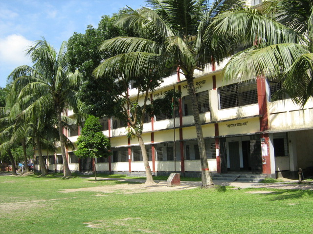 Science Dept